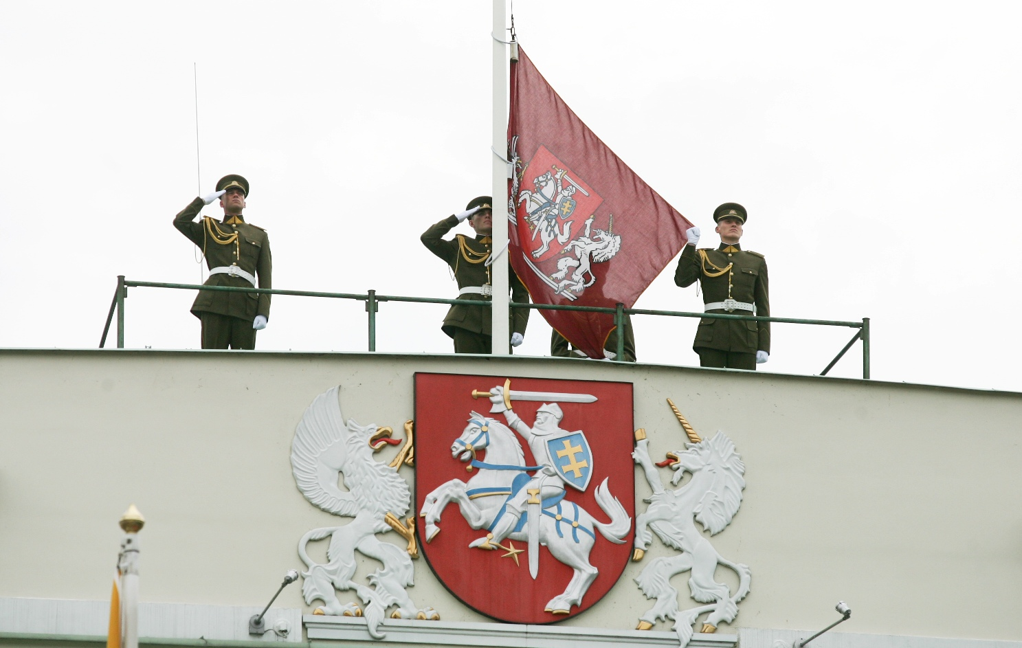 The Presidential Inauguration of Dalia Grybauskaitė, Lithuania, 12 July 2009.